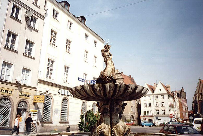 Triton's fountain in Nysa